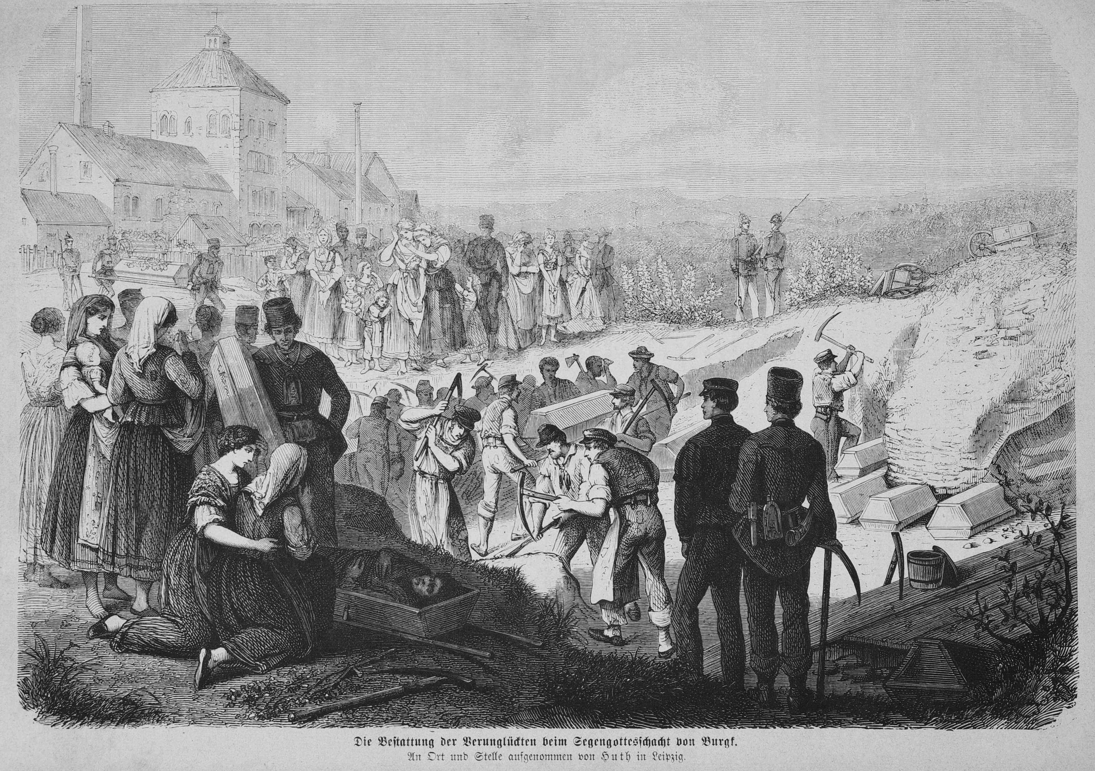 caption: "Die Bestattung der Verunglückten beim Segengottesschacht von Burgk. An Ort und Stelle aufgenommen von Huth in Leipzig."